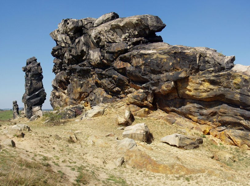 The »Devils Wall« north of Harz between the towns of Blankenburg, Thale and Quedlinburg. Harz is a low mountain range in northern Germany.